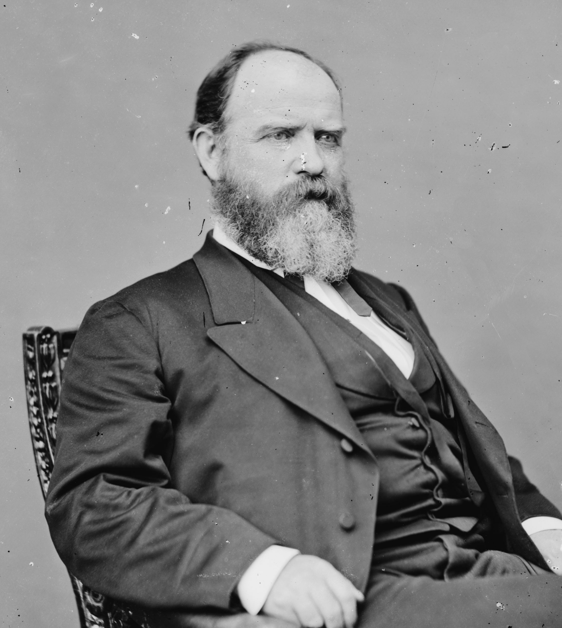 John A. J. Creswell, American Postmaster General and Senator. Annotation from negative, scratched into emulsion: "P.M. Genl Criswell."